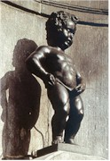 Manneken Pis (Little Boy Piss) is a famous statue in Brussels (Belgium).